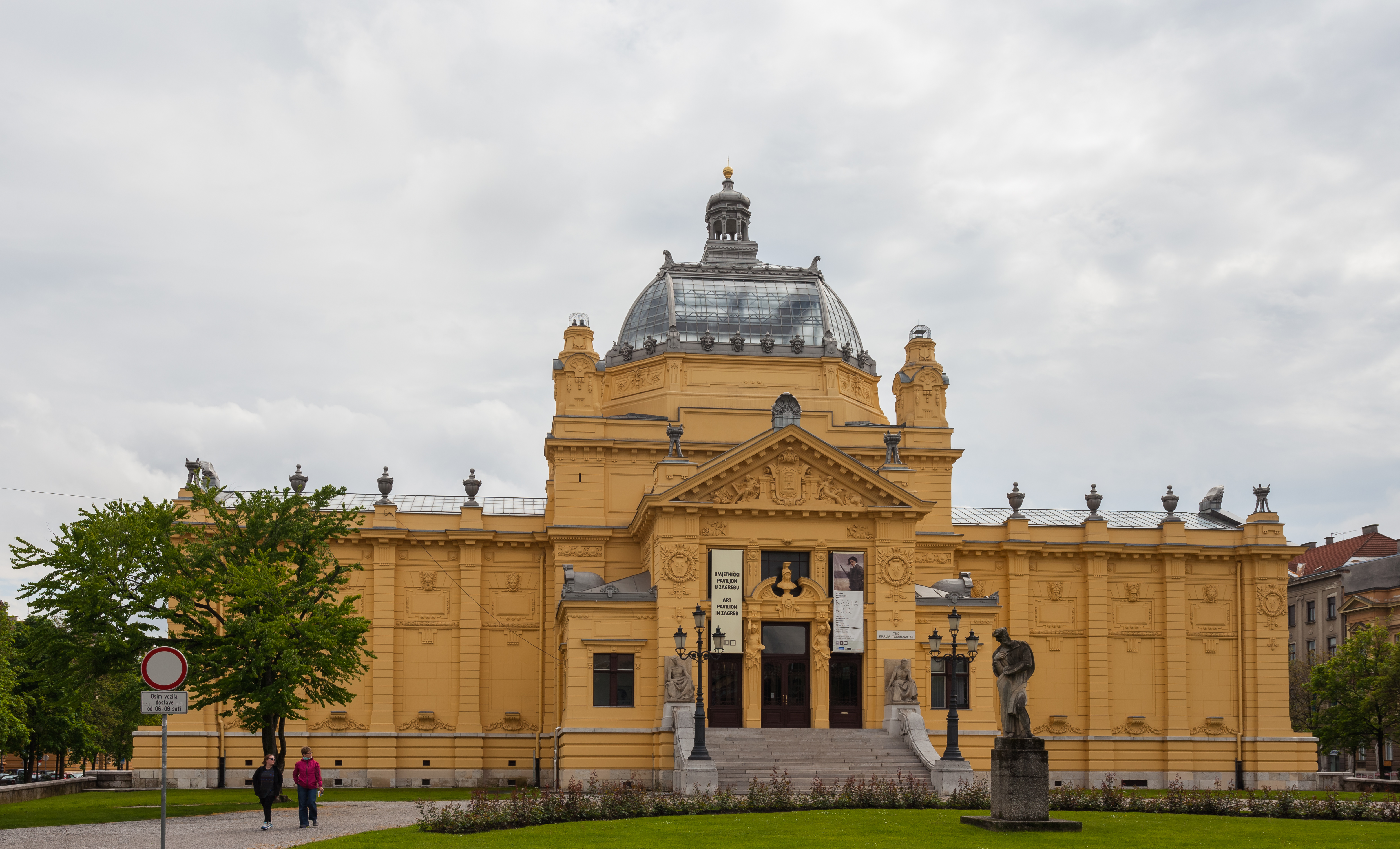 Art Pavillon, Zagreb, Croatia